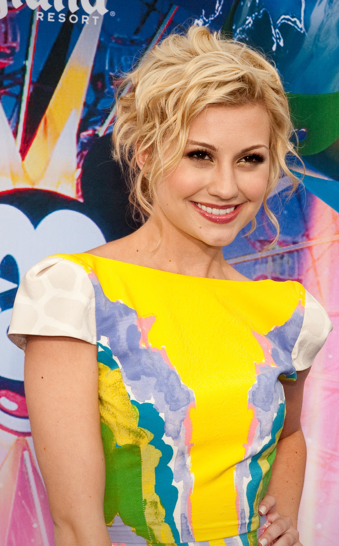 Chelsea Kane at the World of Color premiere at Disney California Adventure Park, June 2010